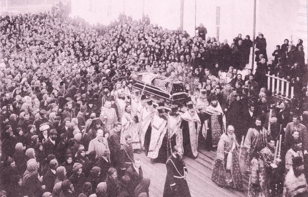 Religious procession with relics of Simeon Verkhoturskii